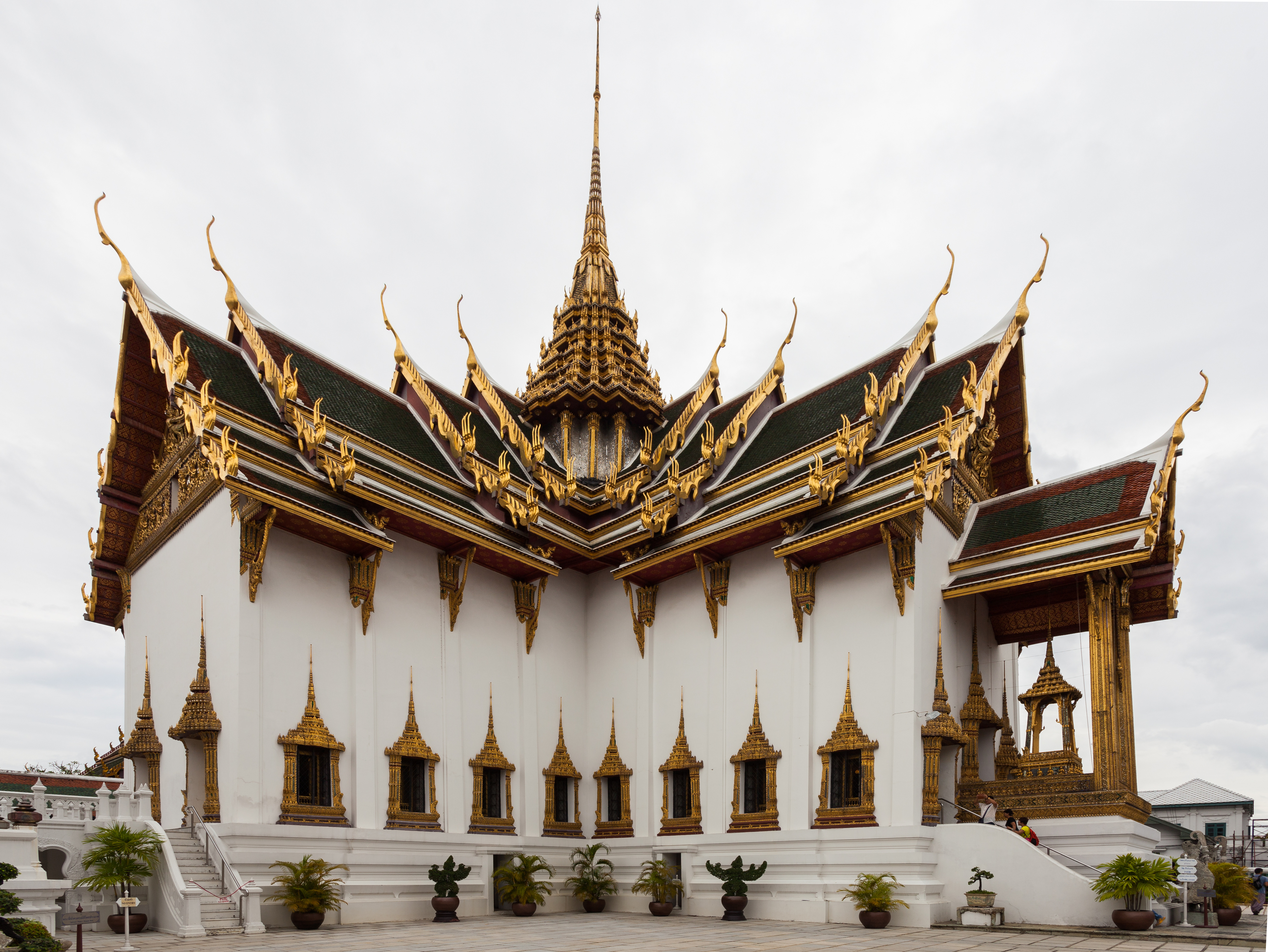 Exterior view of the he Phra Thinang Dusit Maha Prasat or Throne Hall of the Grand Palace in Bangkok, Thailand.